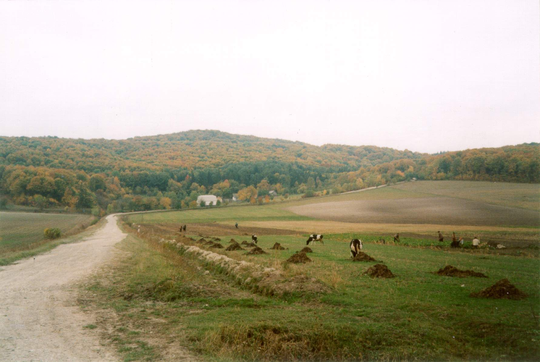 The branch to Pereliski from Ponykwa-Litovishche road